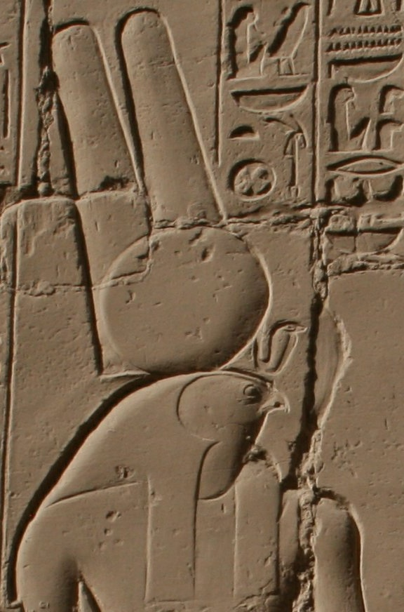 Menthu depicted in a relief at Karnak.